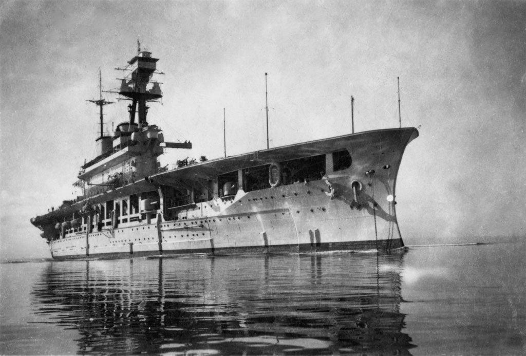 HMS Eagle, pictured somewhere in the Mediterranean in 1942 (probably around June).